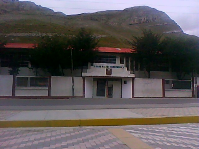 INSTITUCION EDUCATIDE EDUCACION SECUNDARIA